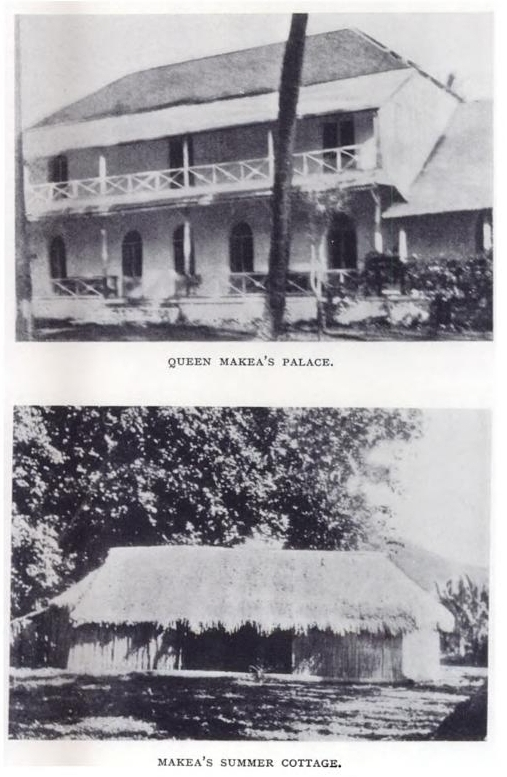 Para o tane Palace, palace of the Makea Nui Ariki and summer cottage of the Makea (Rarotonga) at the beginning of twentieth century